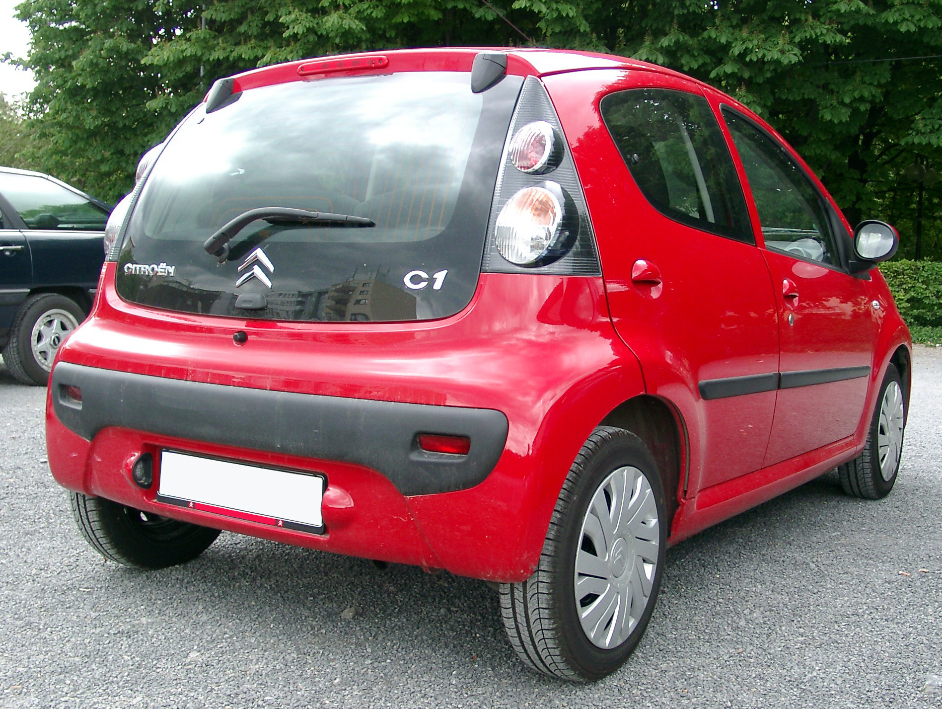 Citroën C1